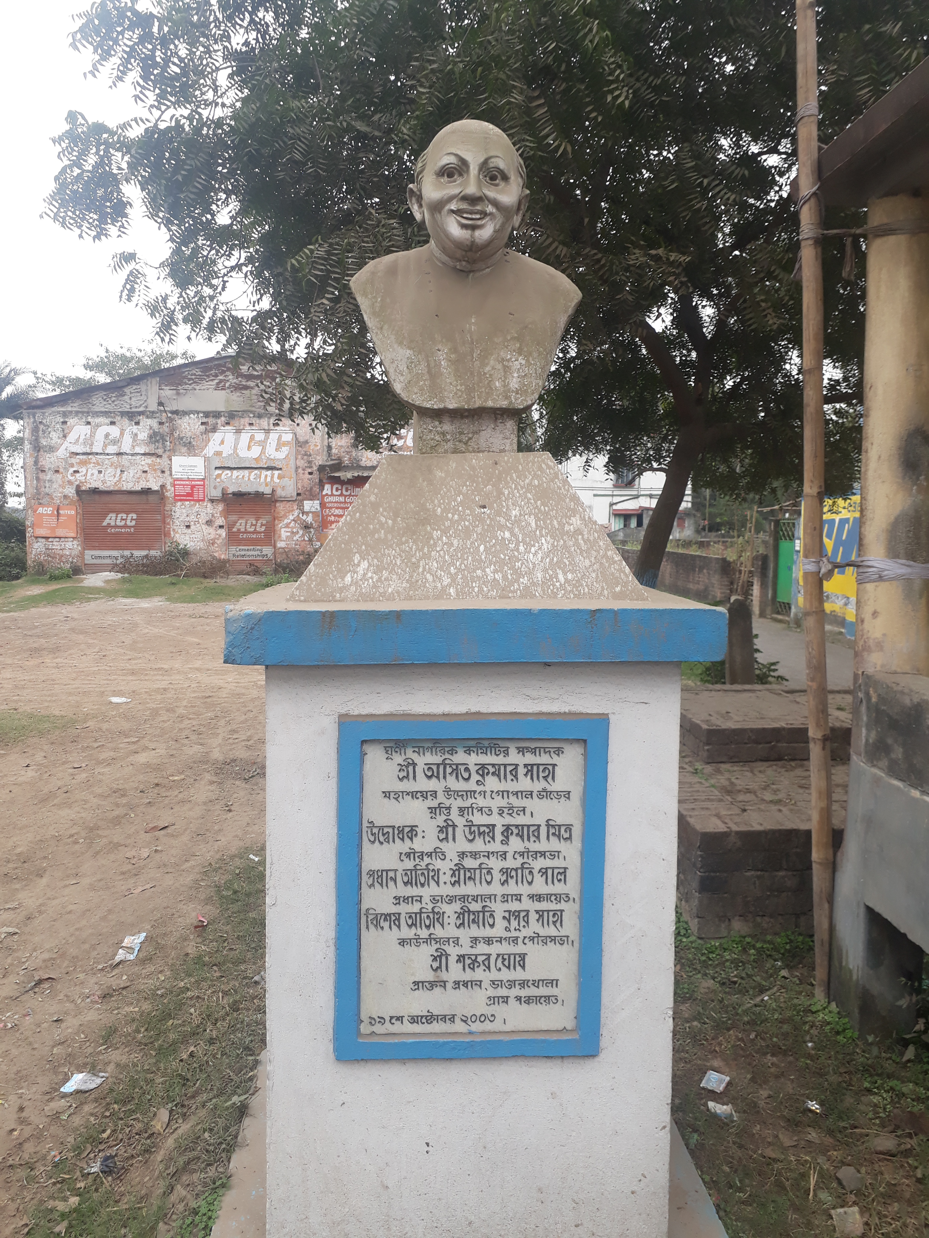 The Gopal Bhar's statue in Krishnagar, Nadia